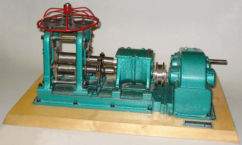 Maquette of a single-stand rolling mill